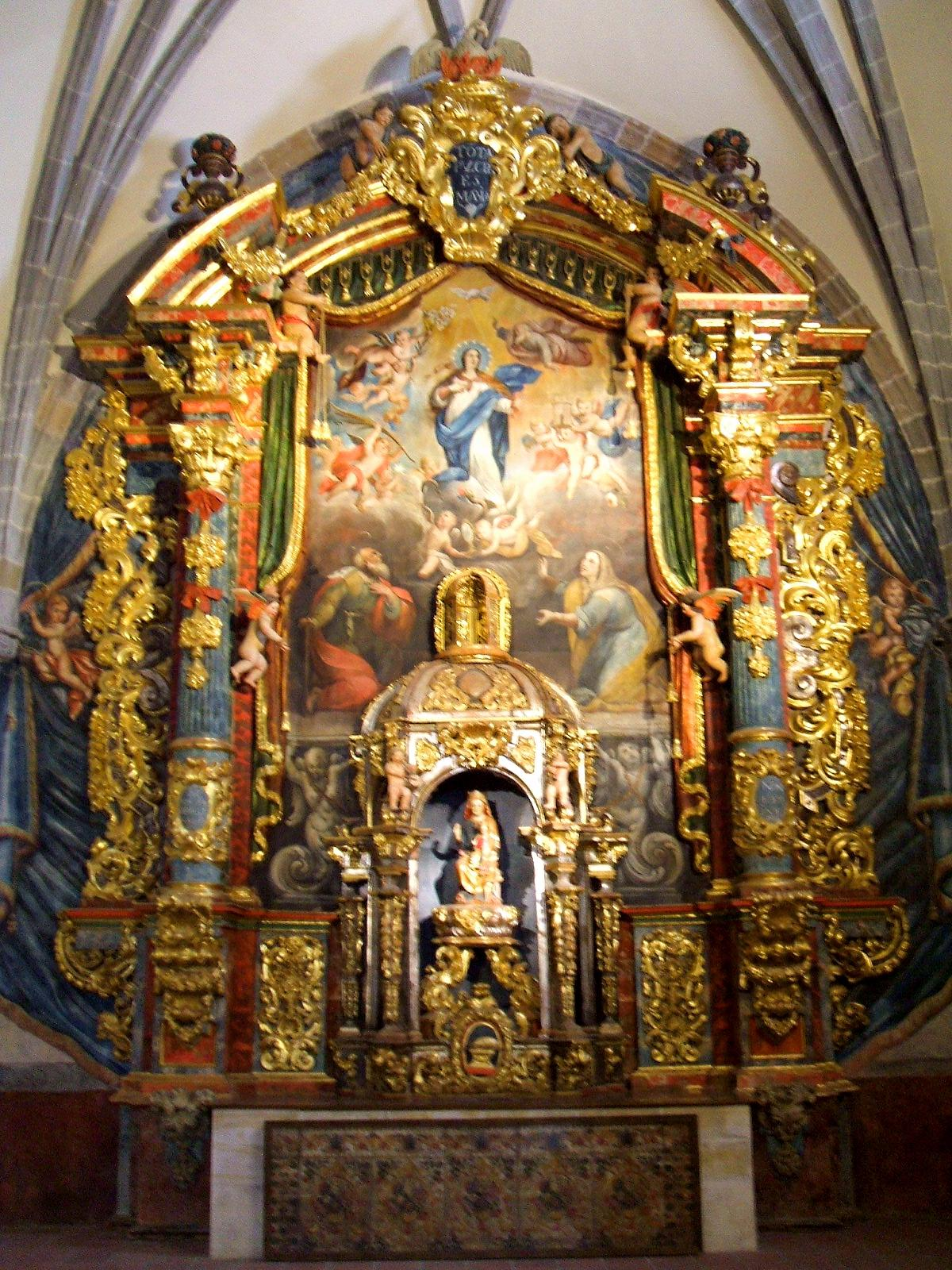 Retablo mayor barroco de la iglesia de Nuestra Señora de la Peña, en Ágreda (Soria, Castilla y León, España)